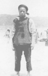 This image of a Manchu Soldier was taken more than 100 years ago.